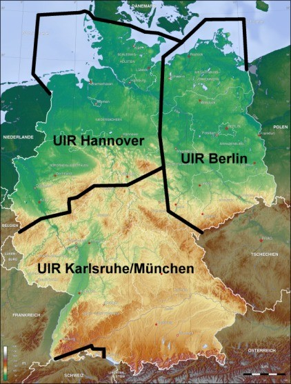 Upper Flight information Region (FIR) Germany